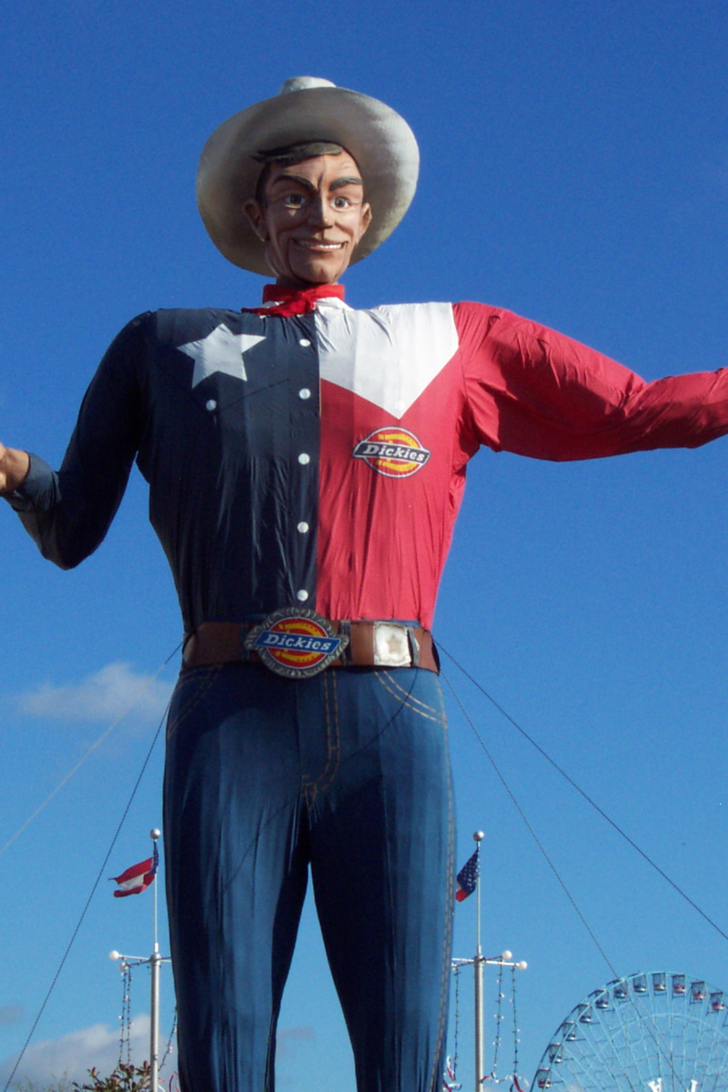 Description: Big Tex, the mascot of the Texas State Fair Source: Image taken by Joyous Location: The Texas State Fair, Dallas, Texas Date: October 11, en:2004